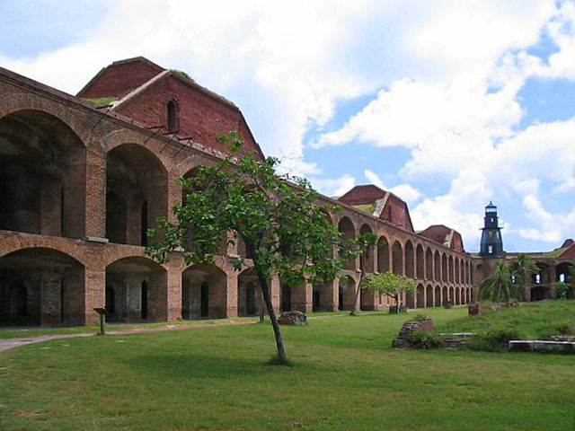 Interior wall, parade ground, and harbor light of Fort Jefferson, the Dry Tortugas